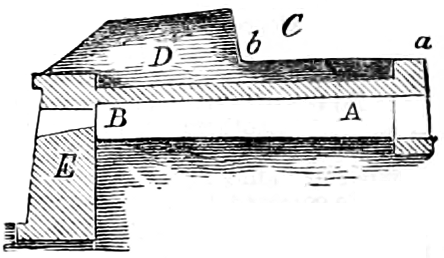 AB — casemate.A gun at B would fire through the embrasure in the wall.A gun at C would fire in barbette, or over the parapet D.E — the scarp wall, the outer face of which is the scarp.ab — the terreplain.